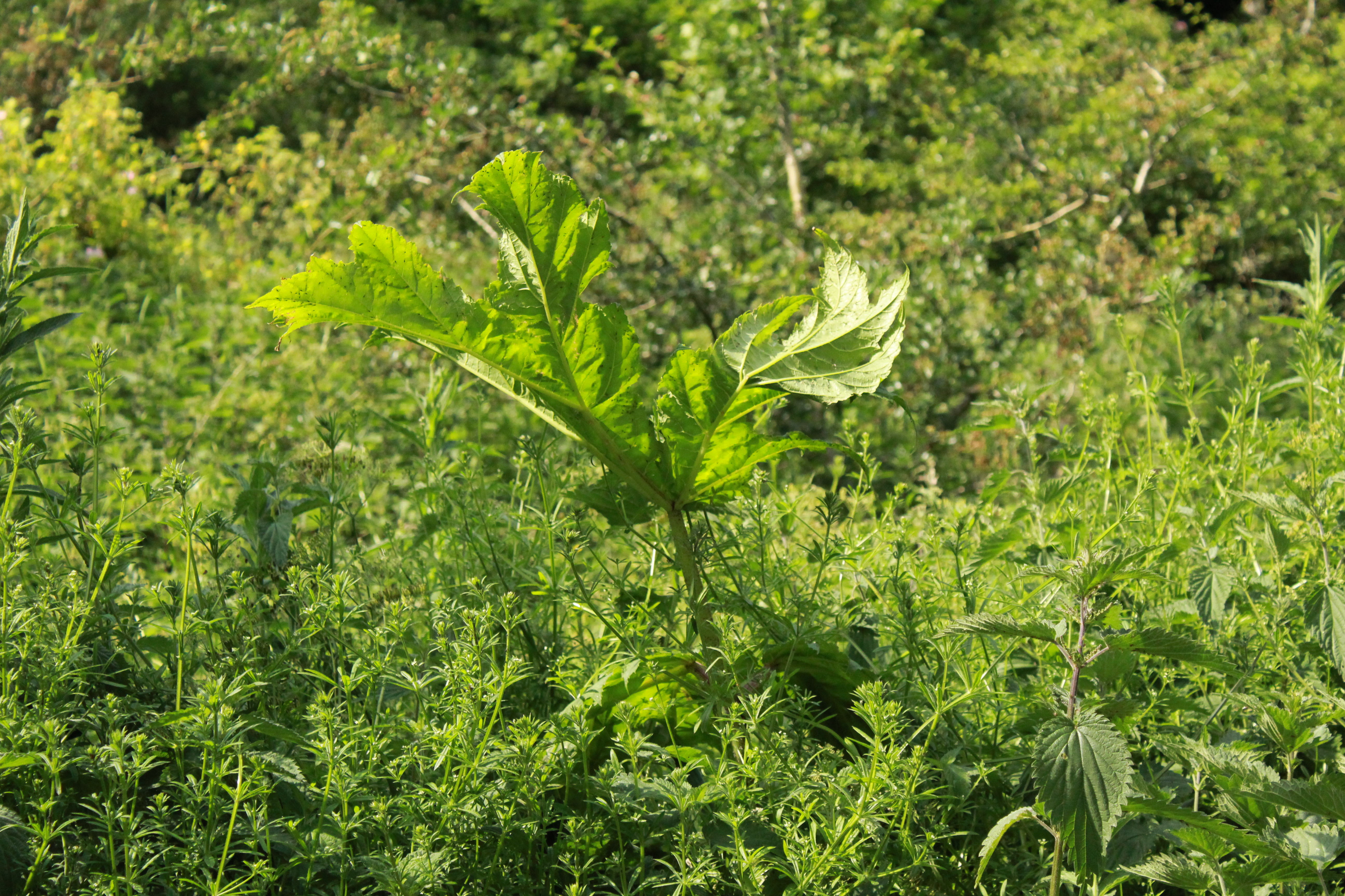 Een reuzeberenklauw in het zuidelijke deel van het Purmerbos Wetenschappelijke benaming: Heracleum mantegazzianum